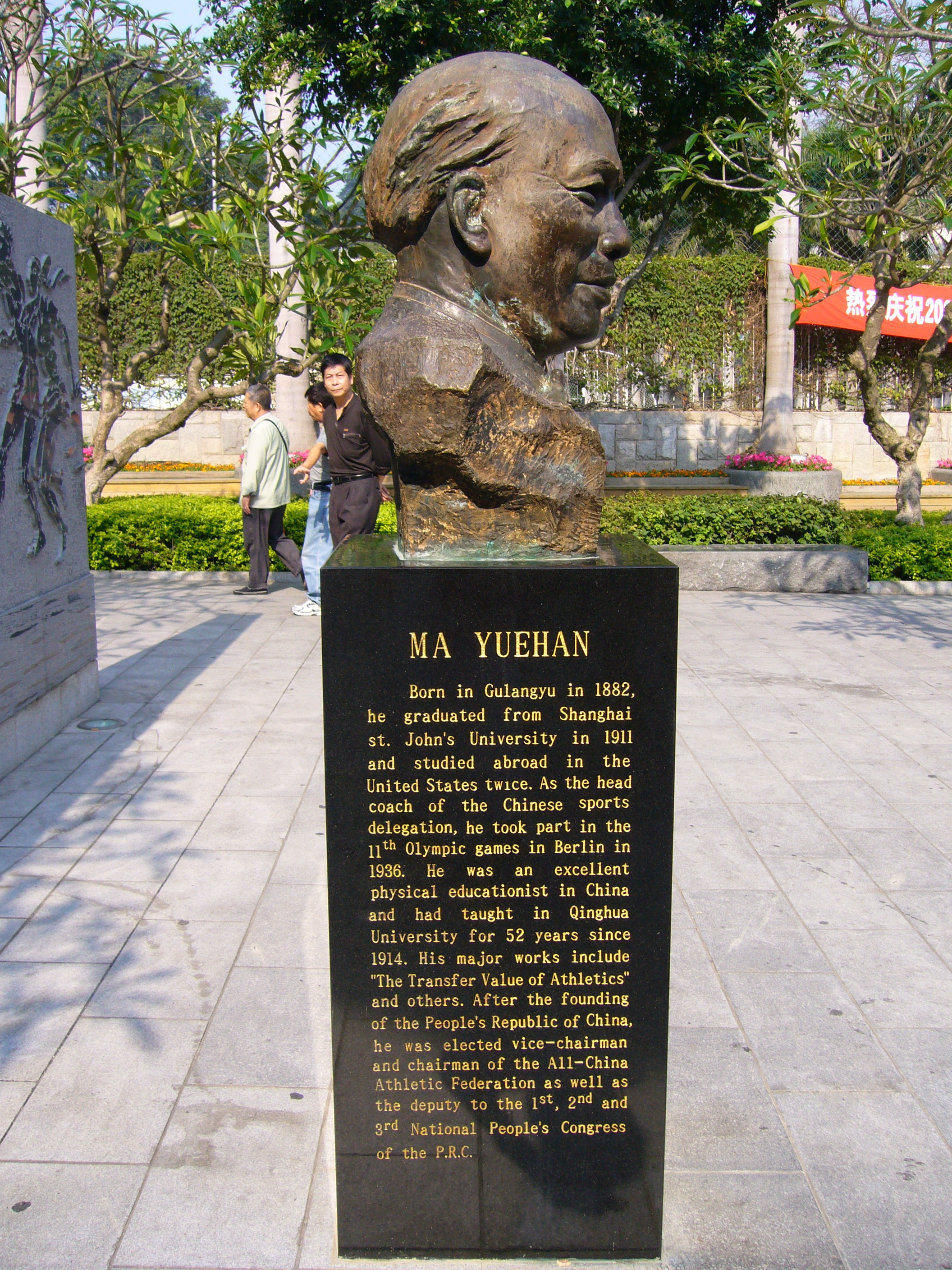 Ma Yuehan, first Chinese sports coach